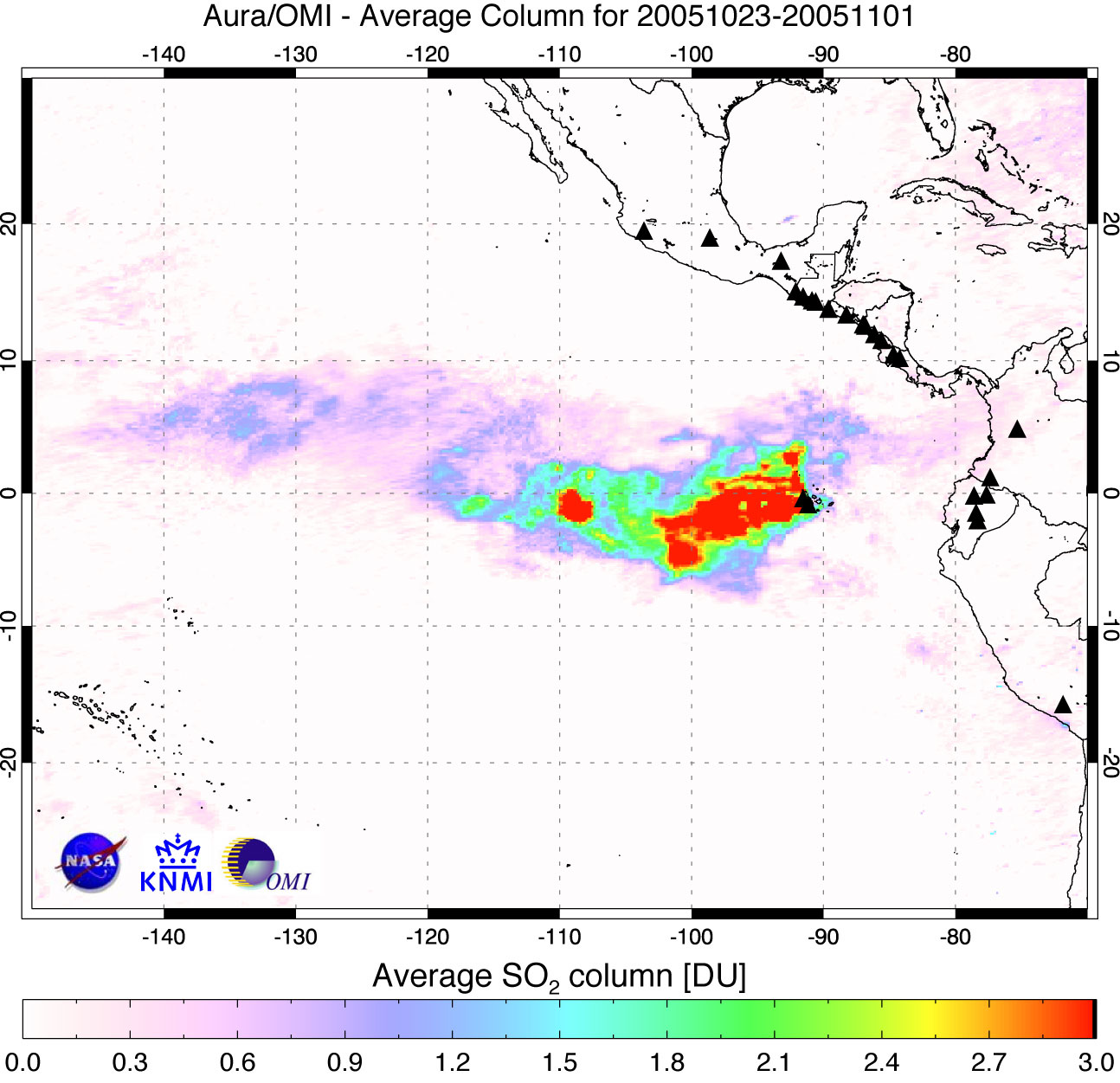 Average concentration of sulfur dioxide over the Sierra Negra Volcano (Galapagos Islands) from October 23-November 1 measured by the Ozone Monitoring Instrument (OMI) on NASA’s Aura satellite. The sulfur dioxide is measured in Dobson units (DU), the number of molecules in a square centimeter of the atmosphere.